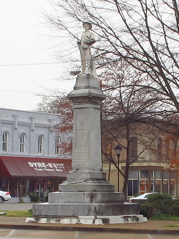 Confederate Monument, Town Square, Grenada, Mississippi.